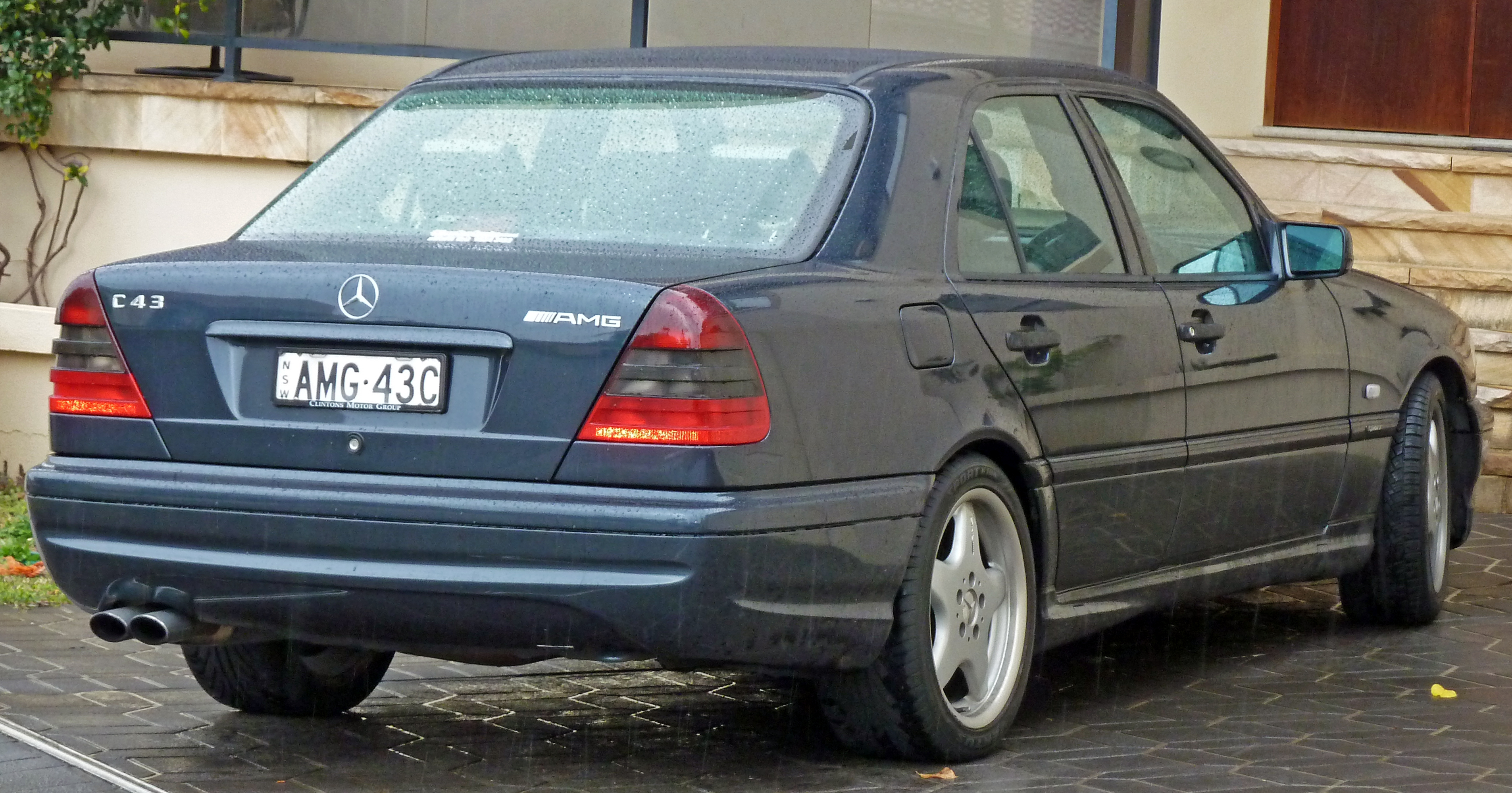 1999 Mercedes-Benz C 43 AMG (W 202) sedan. Photographed in Sylvania, New South Wales, Australia.